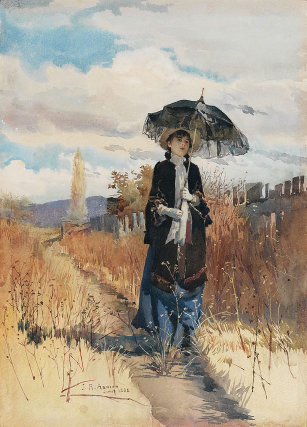 The artist's wife, Eliza Ashton, walking with a parasol along a lane in Richmond, New South Wales.